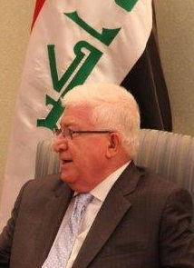 U.S. Secretary of State John Kerry meets with Iraqi President Fuad Masum in Baghdad, Iraq on September 10, 2014. [State Department photo/ Public Domain]